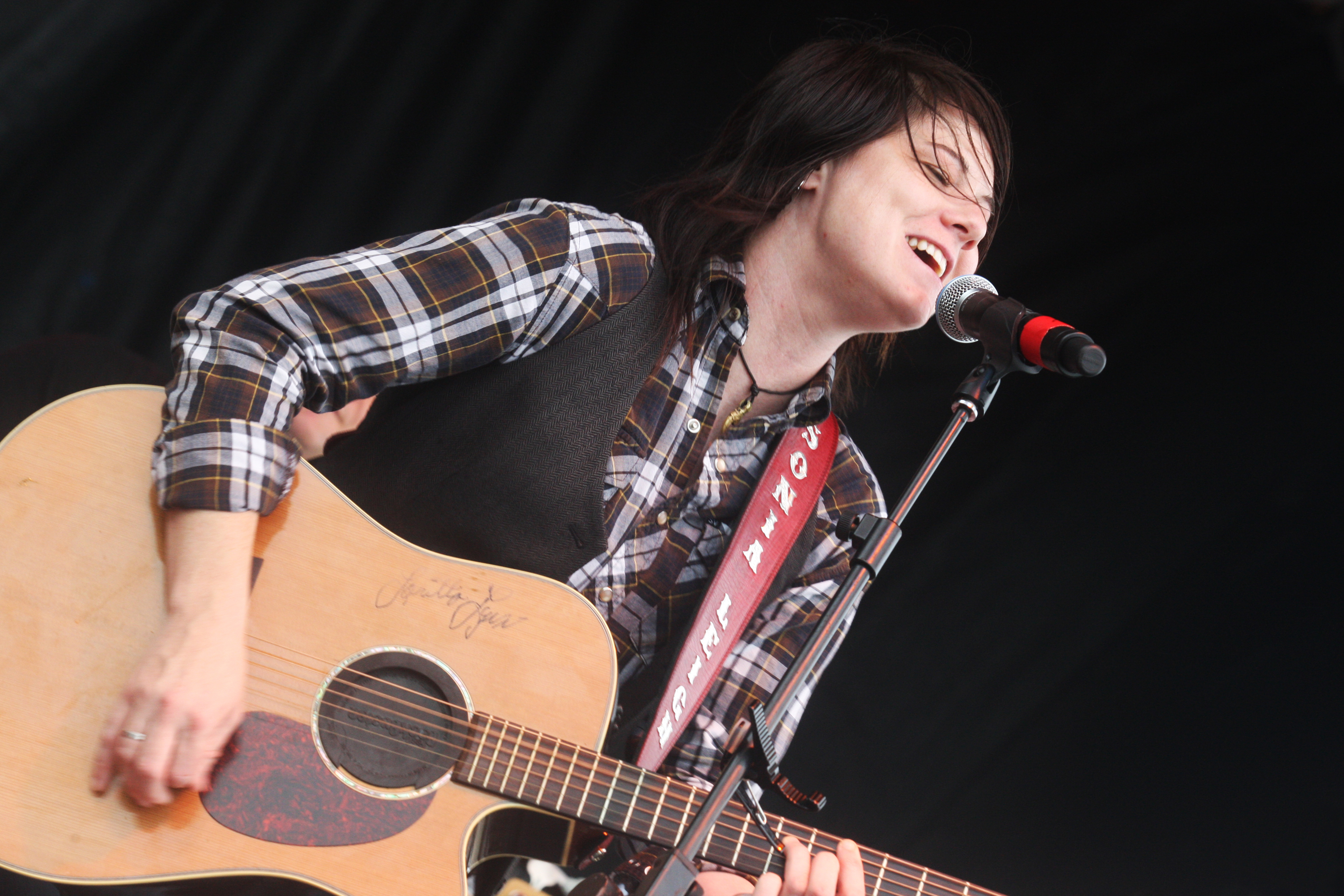 Sonia Leigh, a country music singer, serenades the words of “My Name Is Money” to the crowd of the North Carolina Country Music Freedom Festival at the Deppe Agriculture and Music Pavilion in Maysville, N.C., Sept. 24. The festival, which included a day-long concert of various country music notables, was in support of the upcoming Corpsmen Memorial to be constructed in front of the planned Museum of the Marine, with all proceeds going toward the memorial foundation.